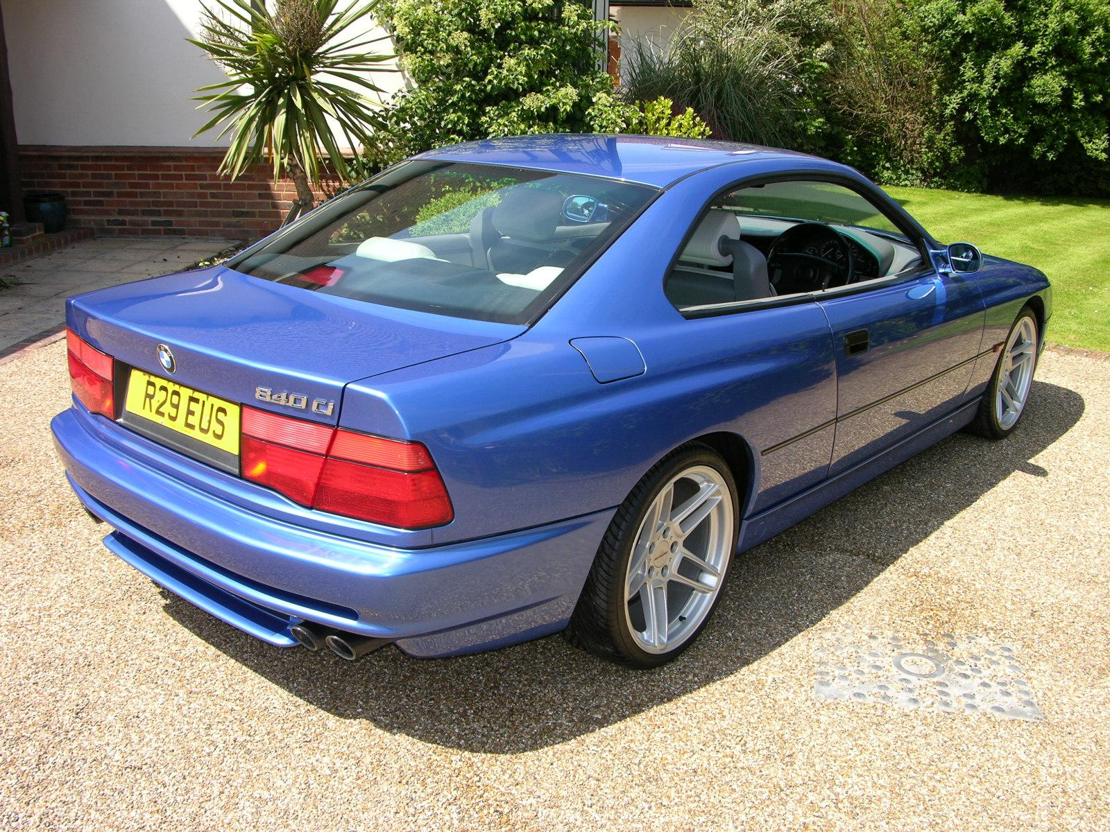 BMW 840 Ci Sport